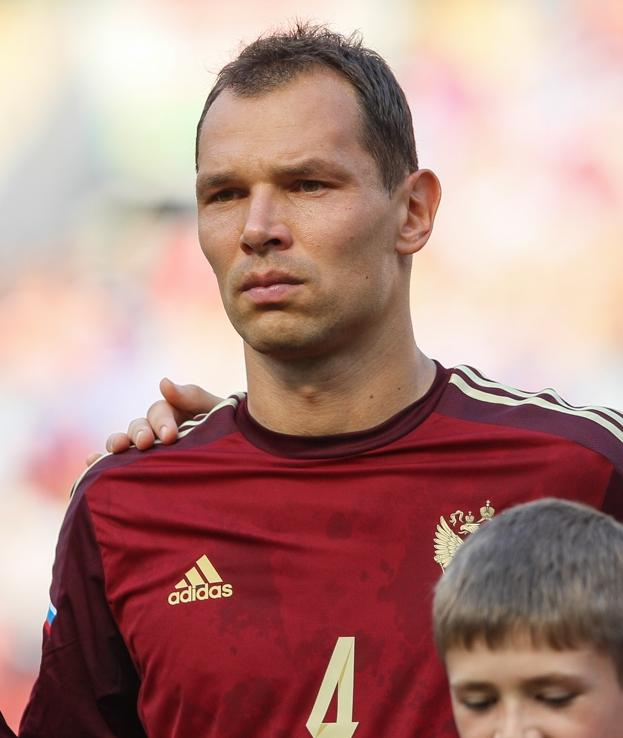 Sergei Ignashevich representing Russian national team in a friendly game against Morocco in Moscow.